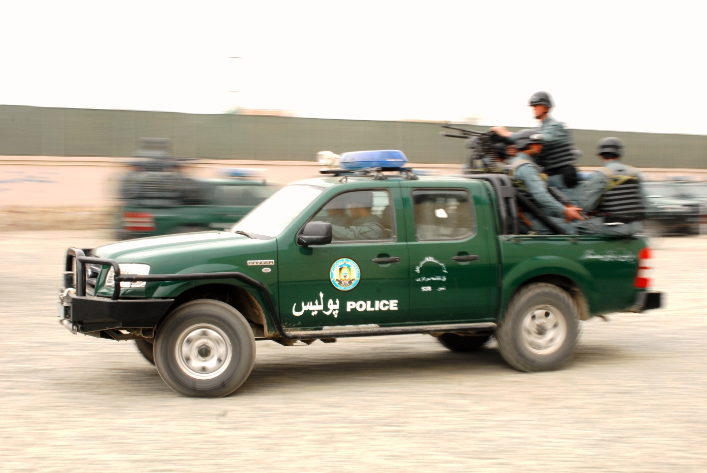 The Central Unit is a Quick Reactionary Force that can be used for crowd dispersion.